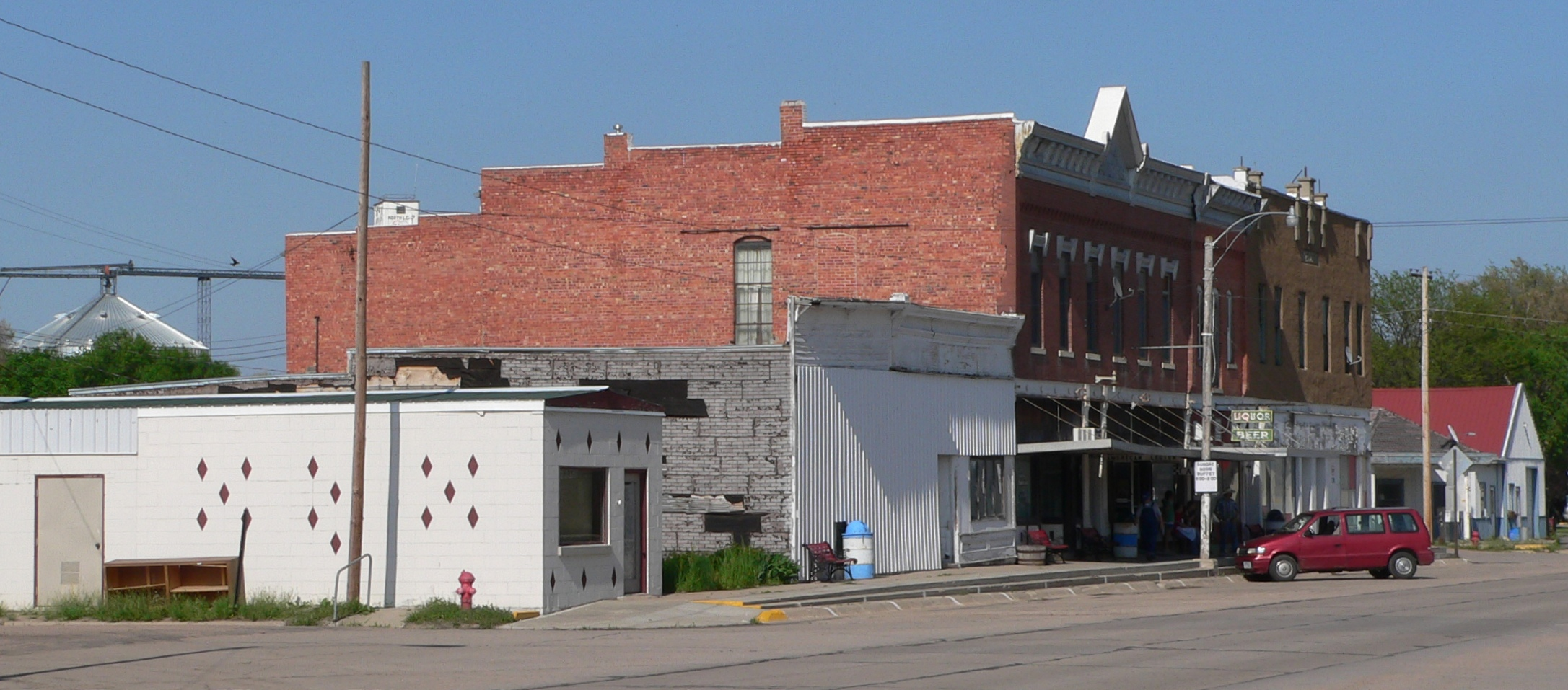 Downtown North Loup, Nebraska: north side of 1st Street (Nebraska Highway 11), seen looking eastward from about B Street.